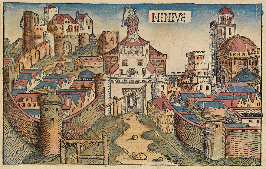 This is a part of a scan of an historical document: Title: Schedelsche Weltchronik or Nuremberg Chronicle